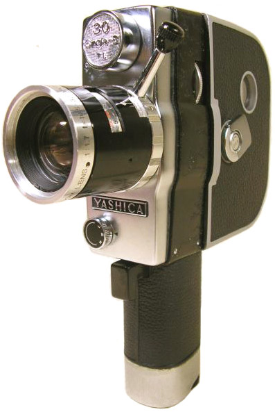 Silent Single 8 Movie Camera